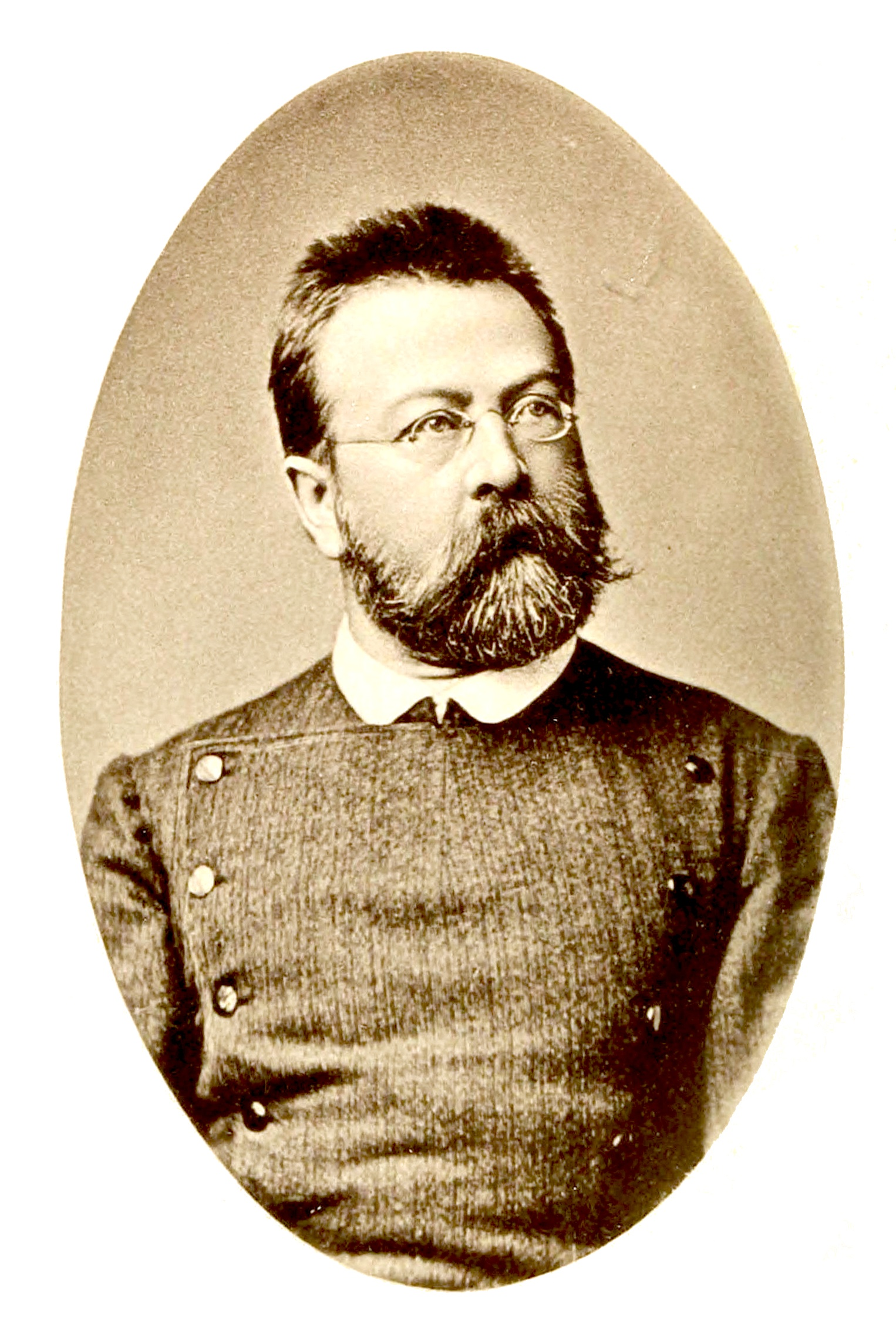 Portrait of Gustav Jäger from his book Entdeckung der Seele (1884)